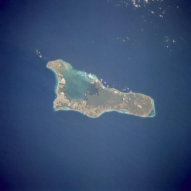 Grand Cayman Island aerial photo from NASA